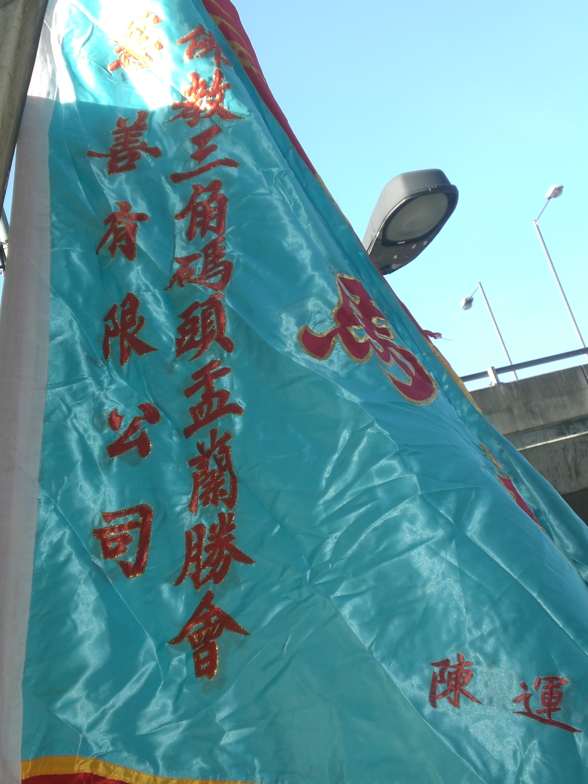 現時香港盂蘭勝會有多個華人社團組織, 其中之一是佛教三角碼頭盂蘭勝會慈善有限公司, 圖中旗幟是其宣傳是項活動, 架於西區公園附近